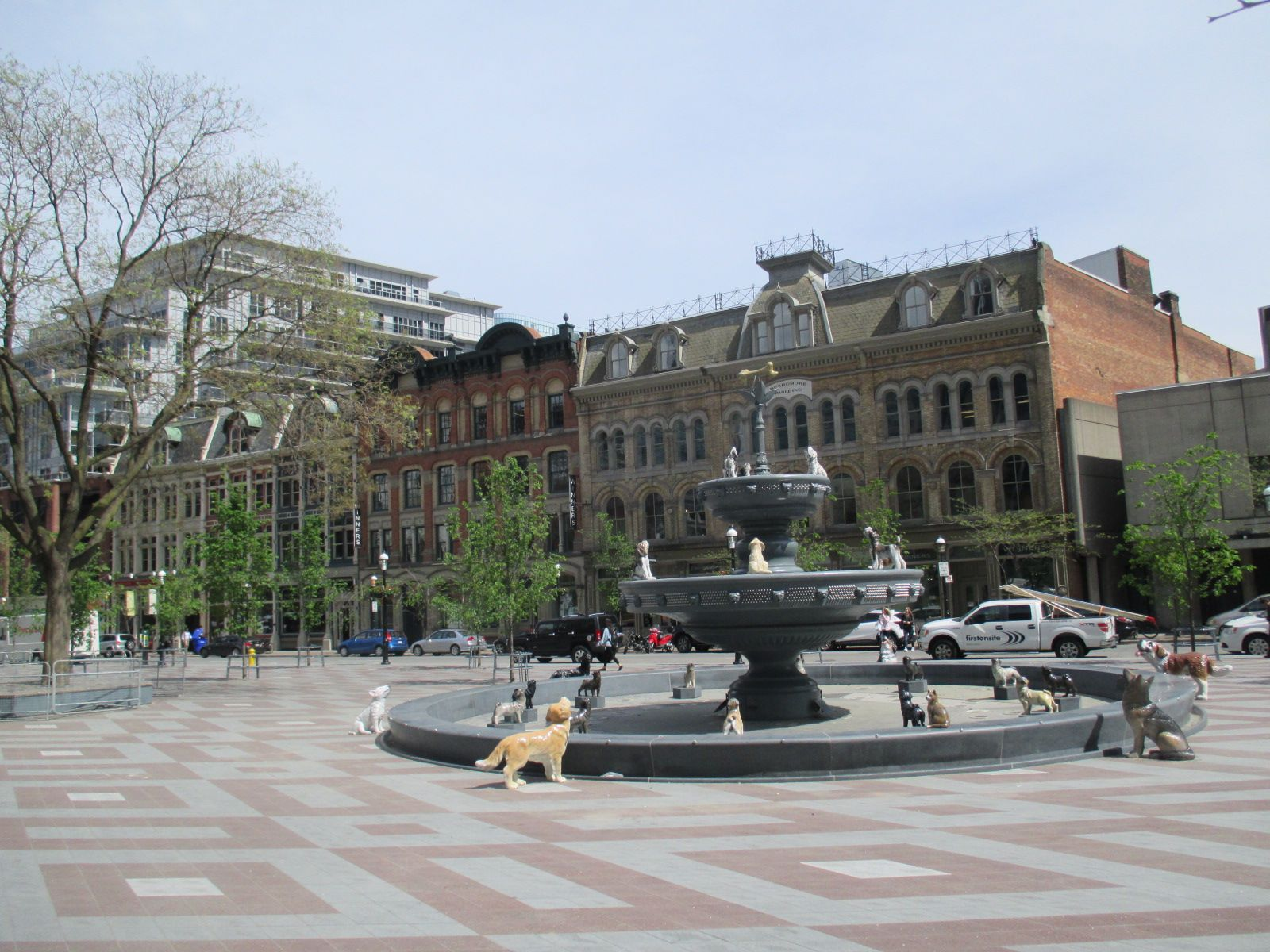 Fountain with statues of 27 dogs and 1 cat in Bercy Park, Toronto.